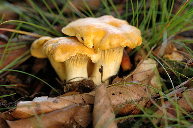 Cantharellus cibarius from Commanster, Belgium. The determination of the species shown in this picture has been verified.